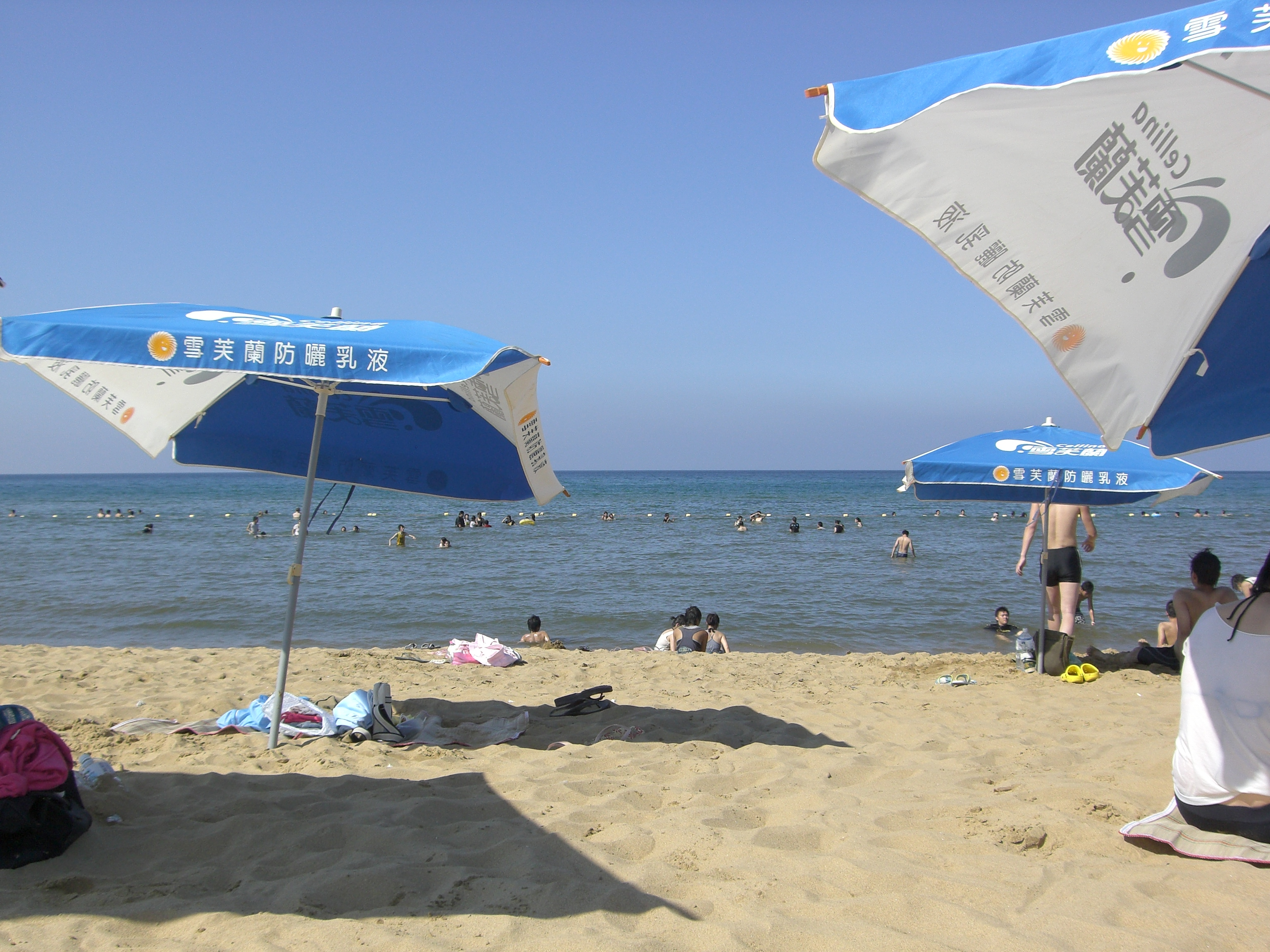 Fulong Beach swimming area.